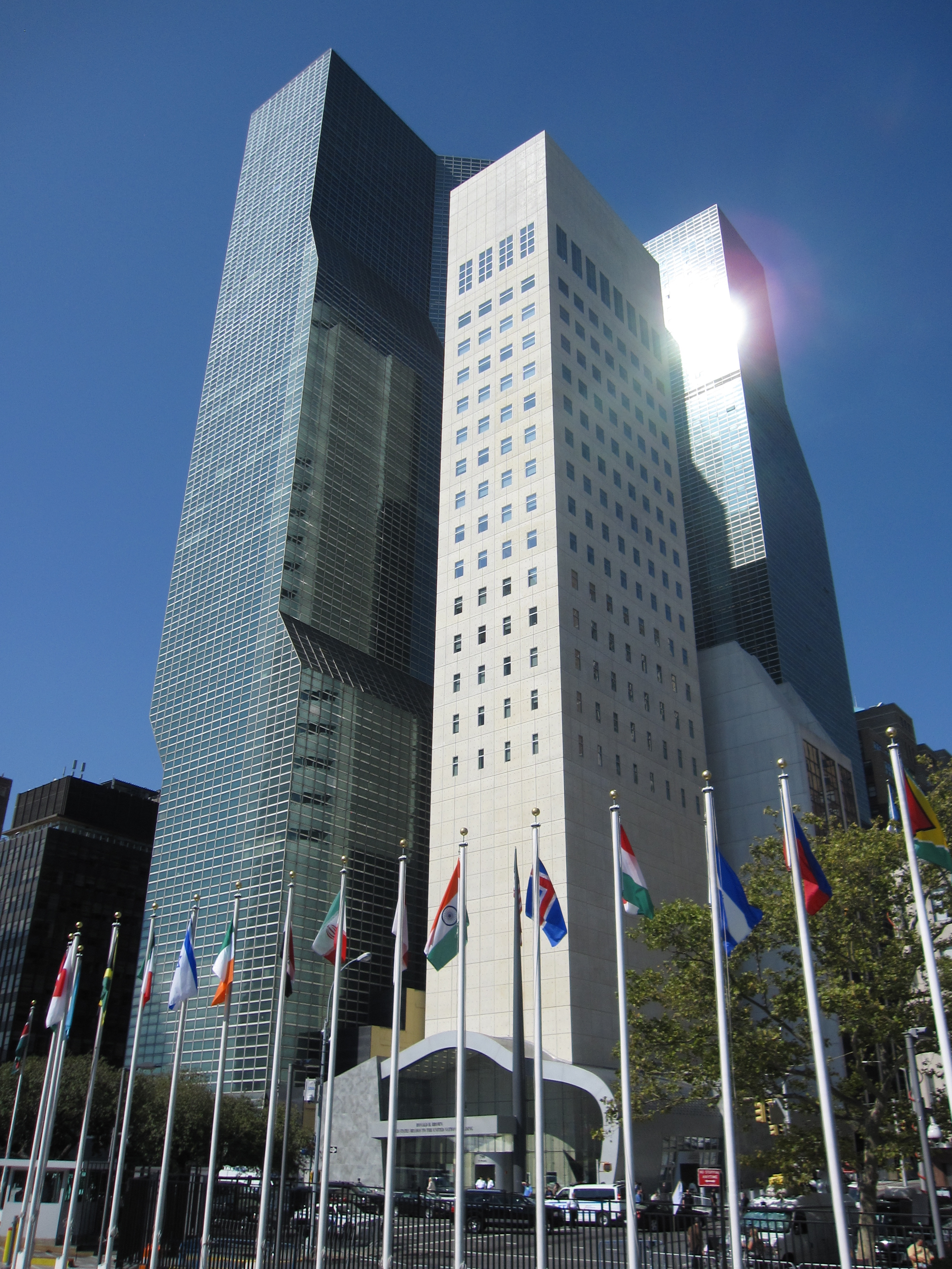 1 United Nations Plaza, also known as DC-1 and DC-2